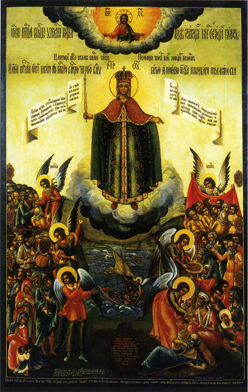 Our lady of all sorrowfull.